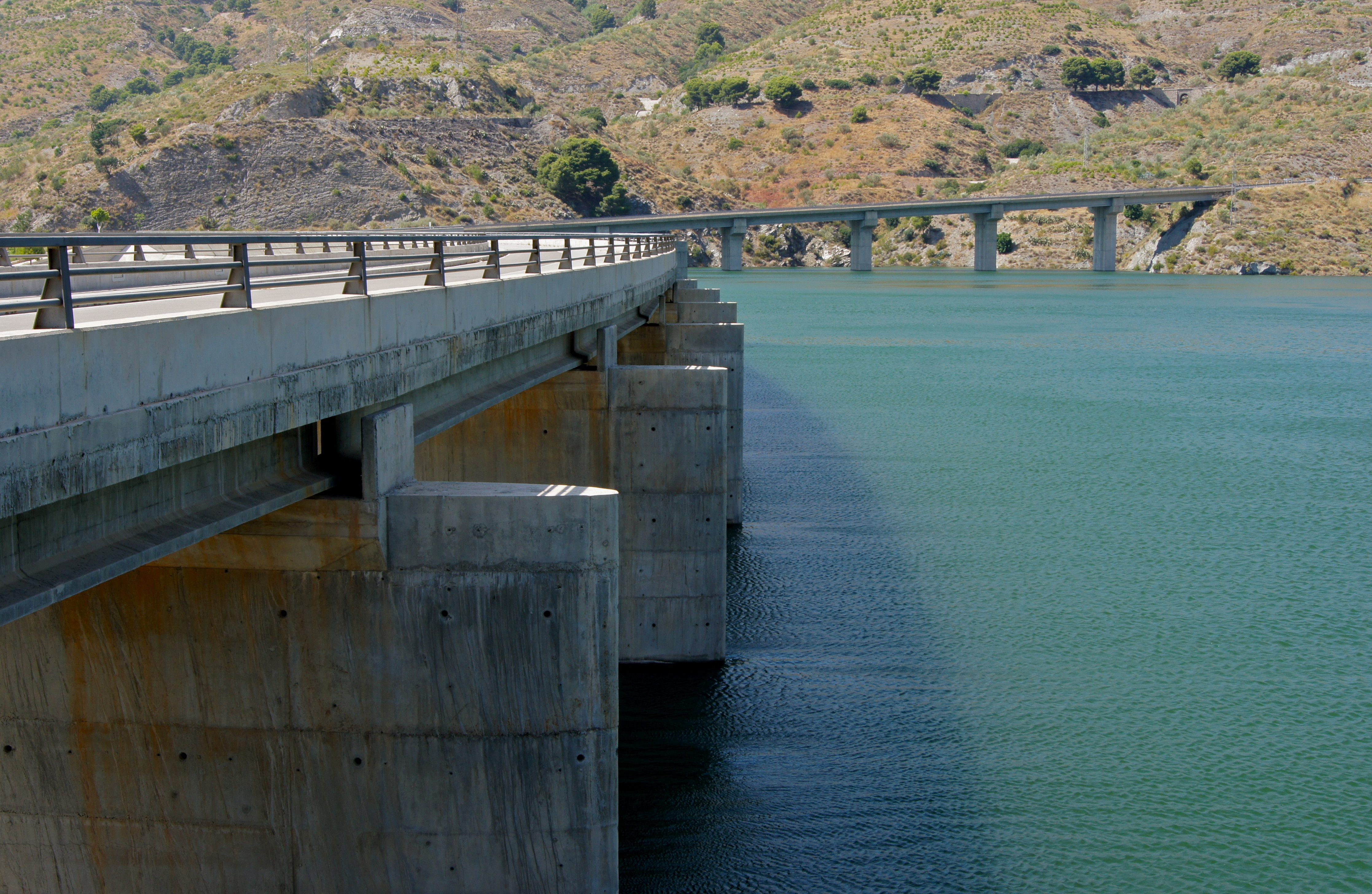 The reservoir of the Guadalfeo river, for the Rules dam in Andalusia, Province of Granada, Spain